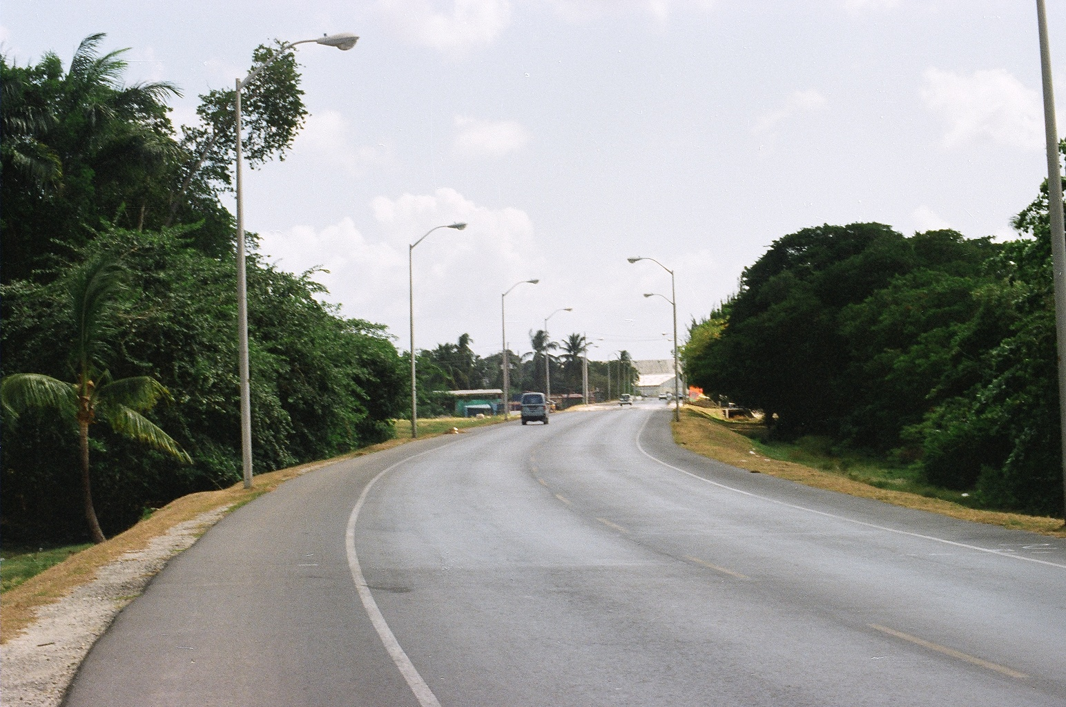 Central Section of Spring Garden Highway in the parish of Saint Michael in Barbados